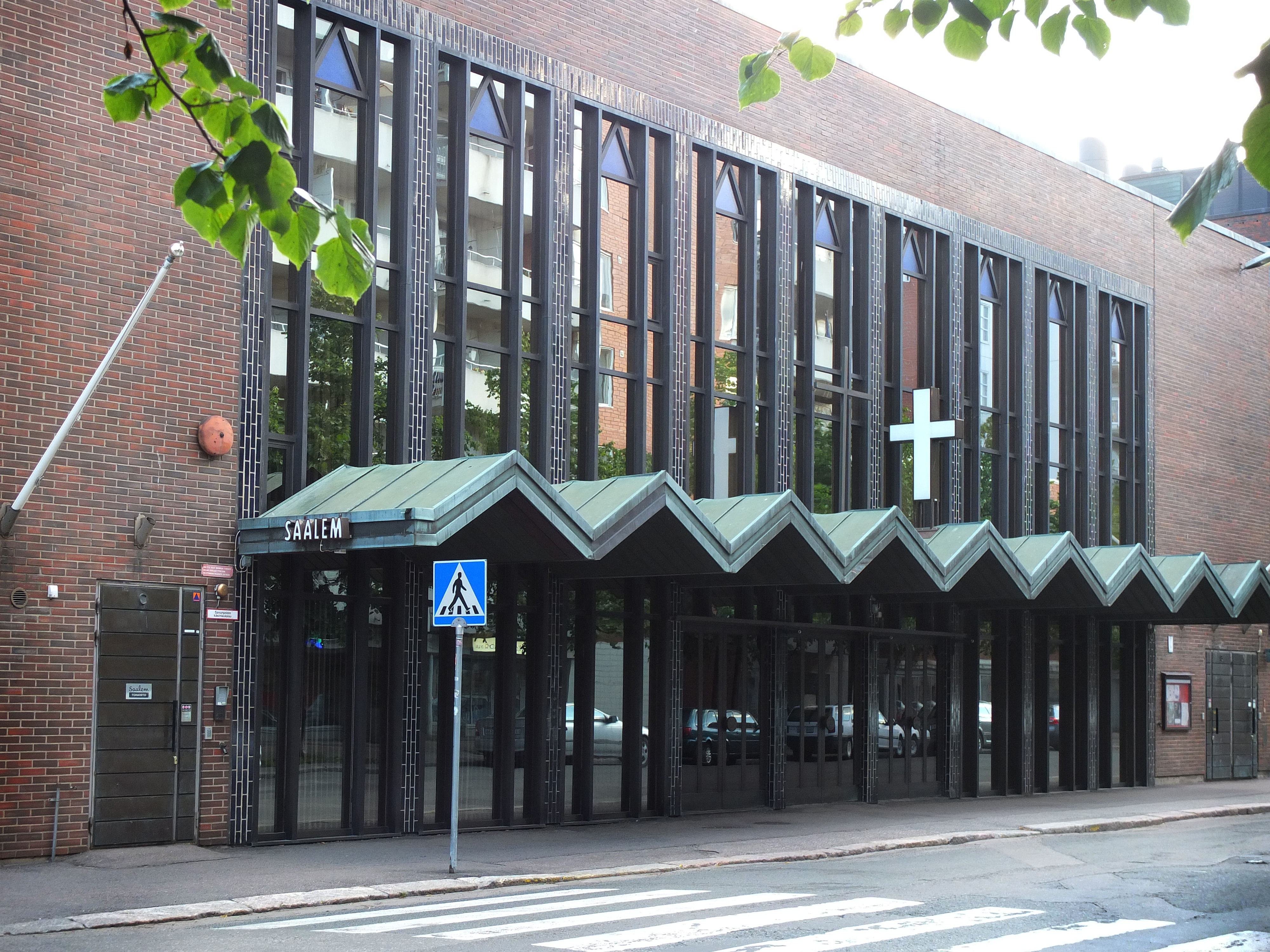 Pentecostal temple Saalem, Näkinkuja, Hakaniemi, Helsinki, Finland.